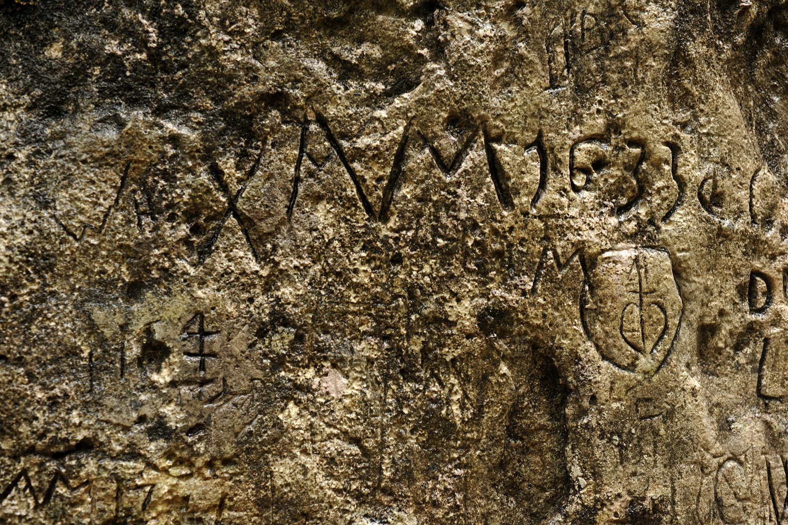 Anabaptist bridge crossing the Combe du Bez above Corgémont; Berne, Switzerland. Oldest inscription from 1633.